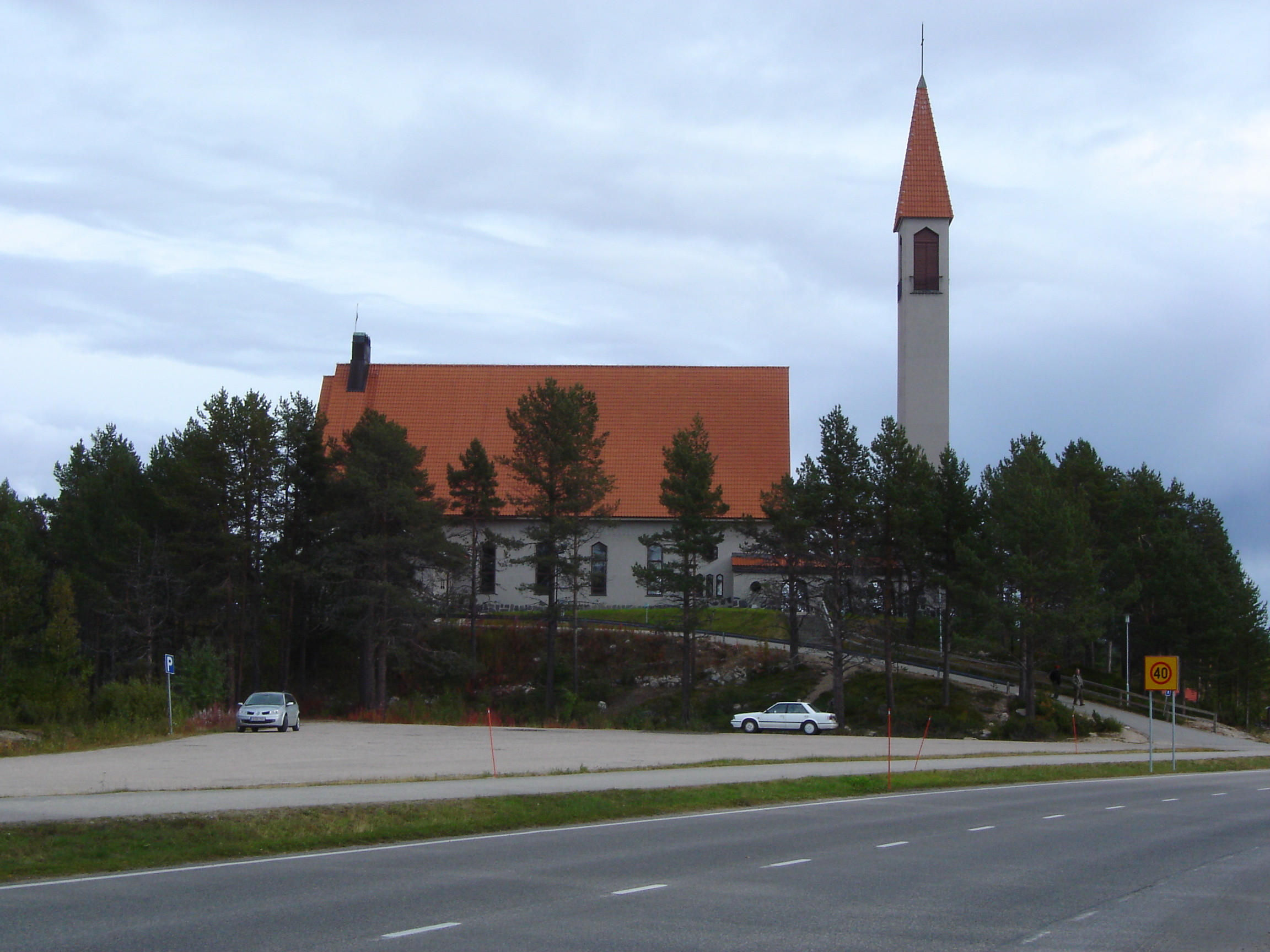 Church of Enontekiö, Finland